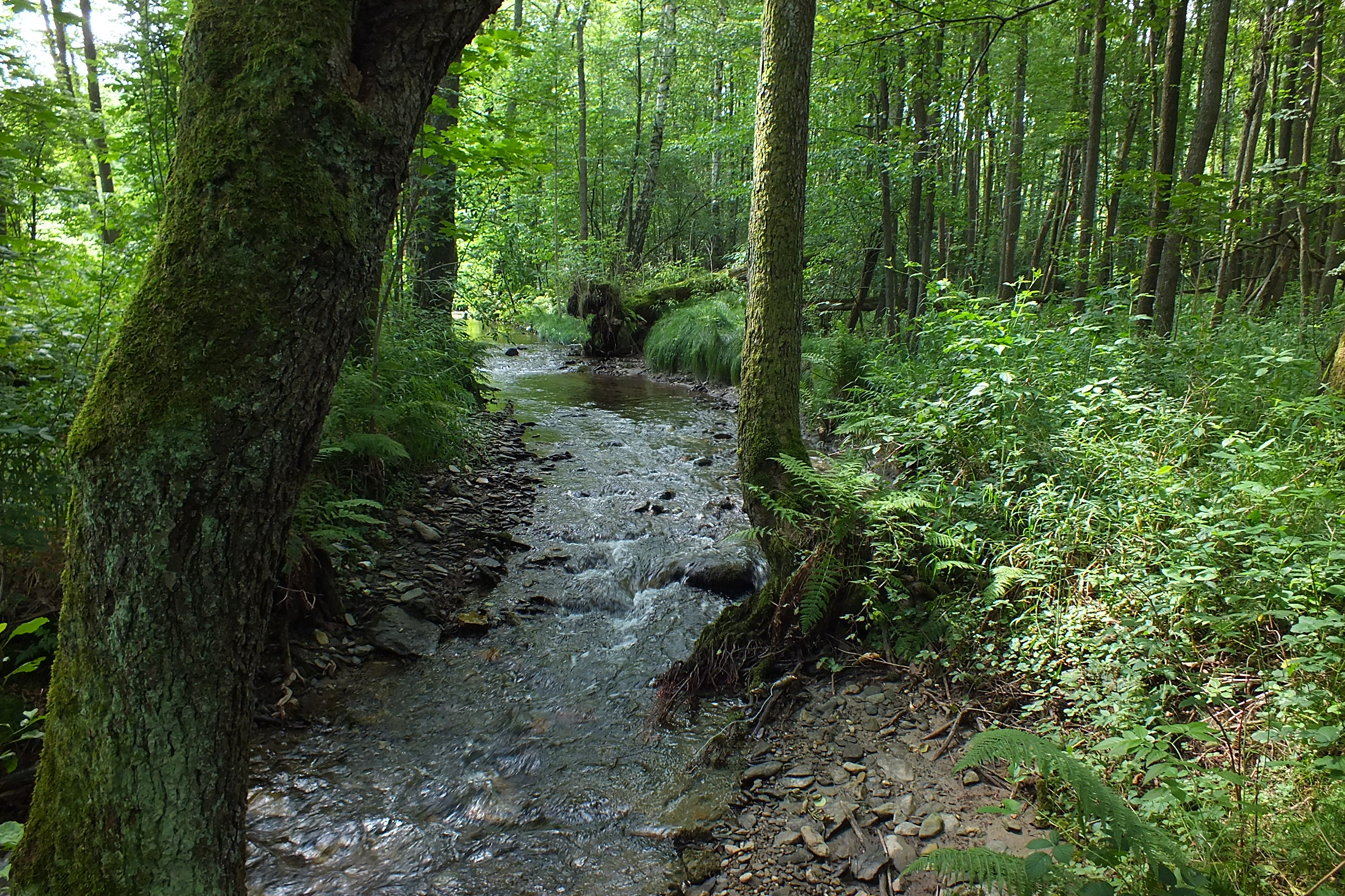 Zelenský luh, nature reserve in the Šumava mountains, the Czech Republic.